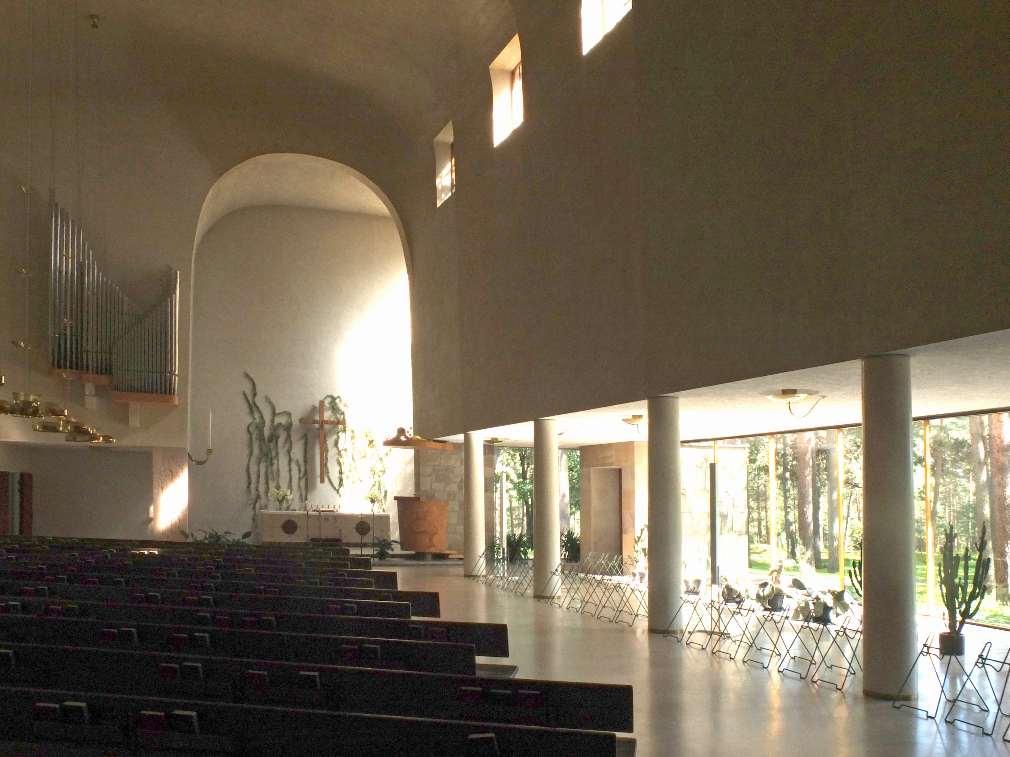 Ylösnousemuskappeli (Resurrection Chapel) at Turku cemetery. summer 2013. Architect Erik Bryggman, completed 1941.